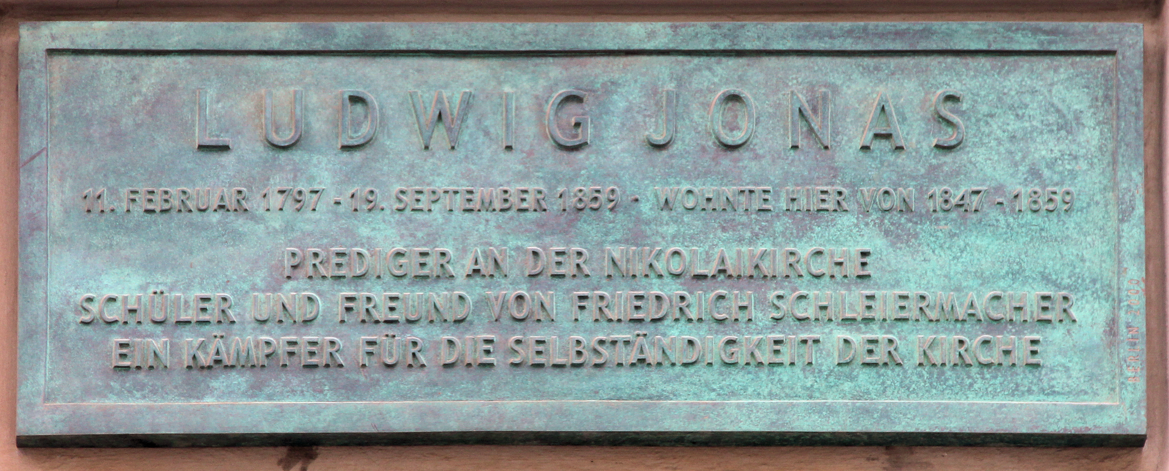 Memorial plaque, Ludwig Jonas, Brüderstraße 13, Berlin-Mitte, Germany